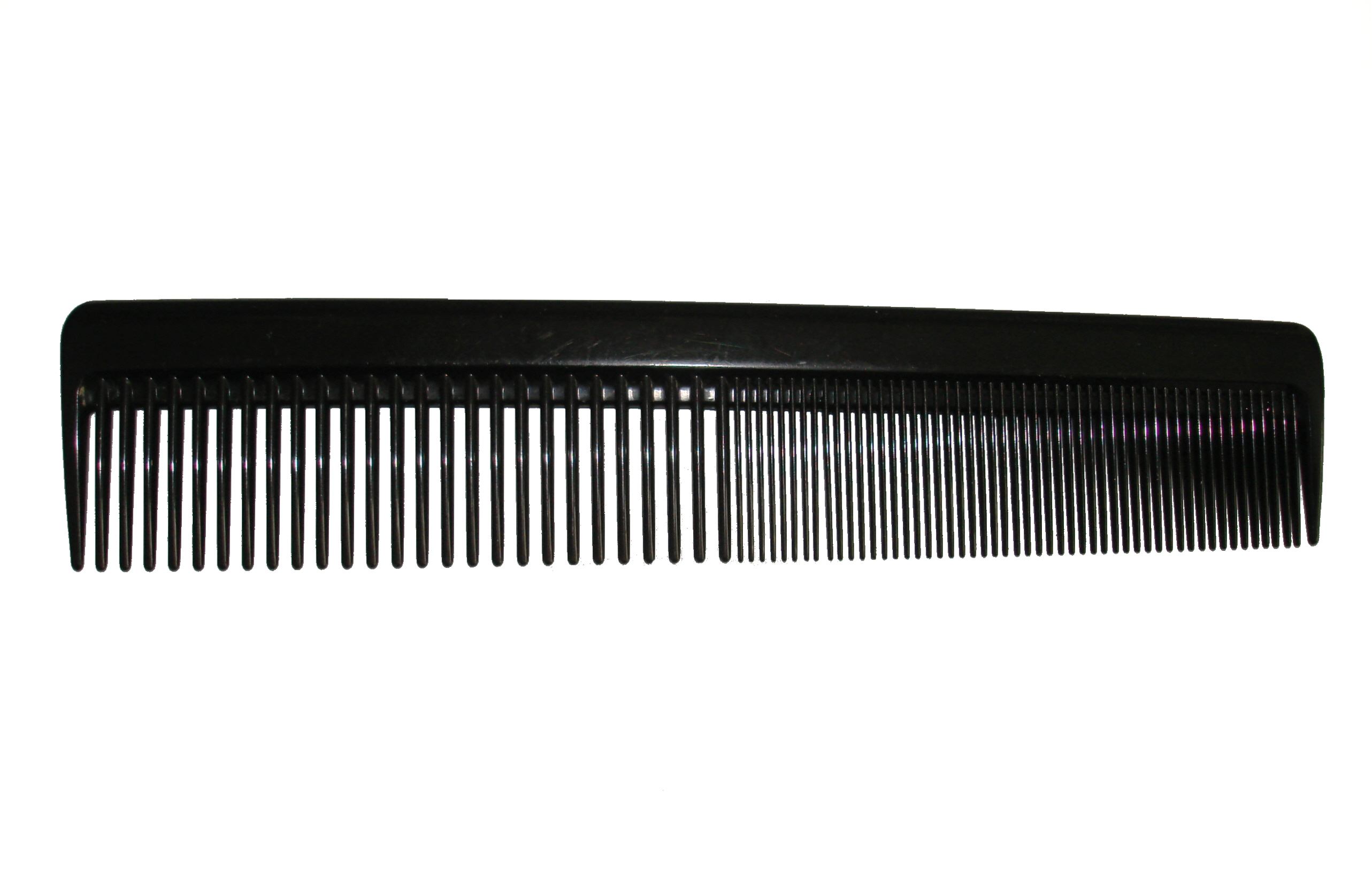 Black Comb